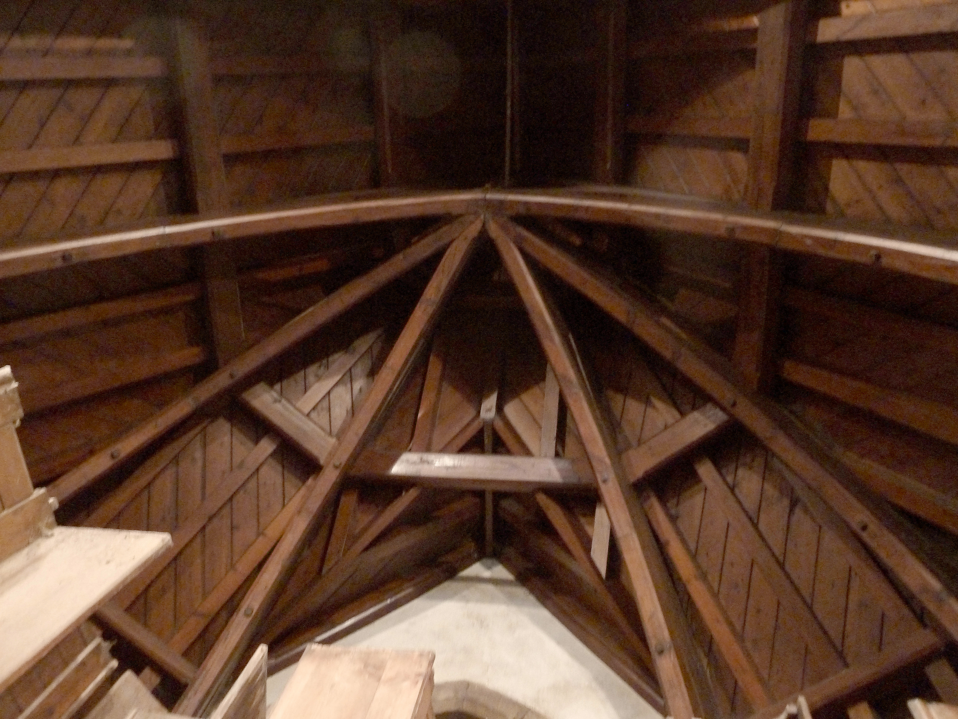 Interior of Church of All Saints, Otley Road, Harlow Hill, Harrogate, North Yorkshire, England. It is the cemetery chapel in Harlow Hill Cemetery, and was designed in 1870 by architects Isaac Thomas Shutt and Alfred Hill Thompson. Apsoidal roof of chancel, showing top of east window accommodated in low gable extended from hipped roof.